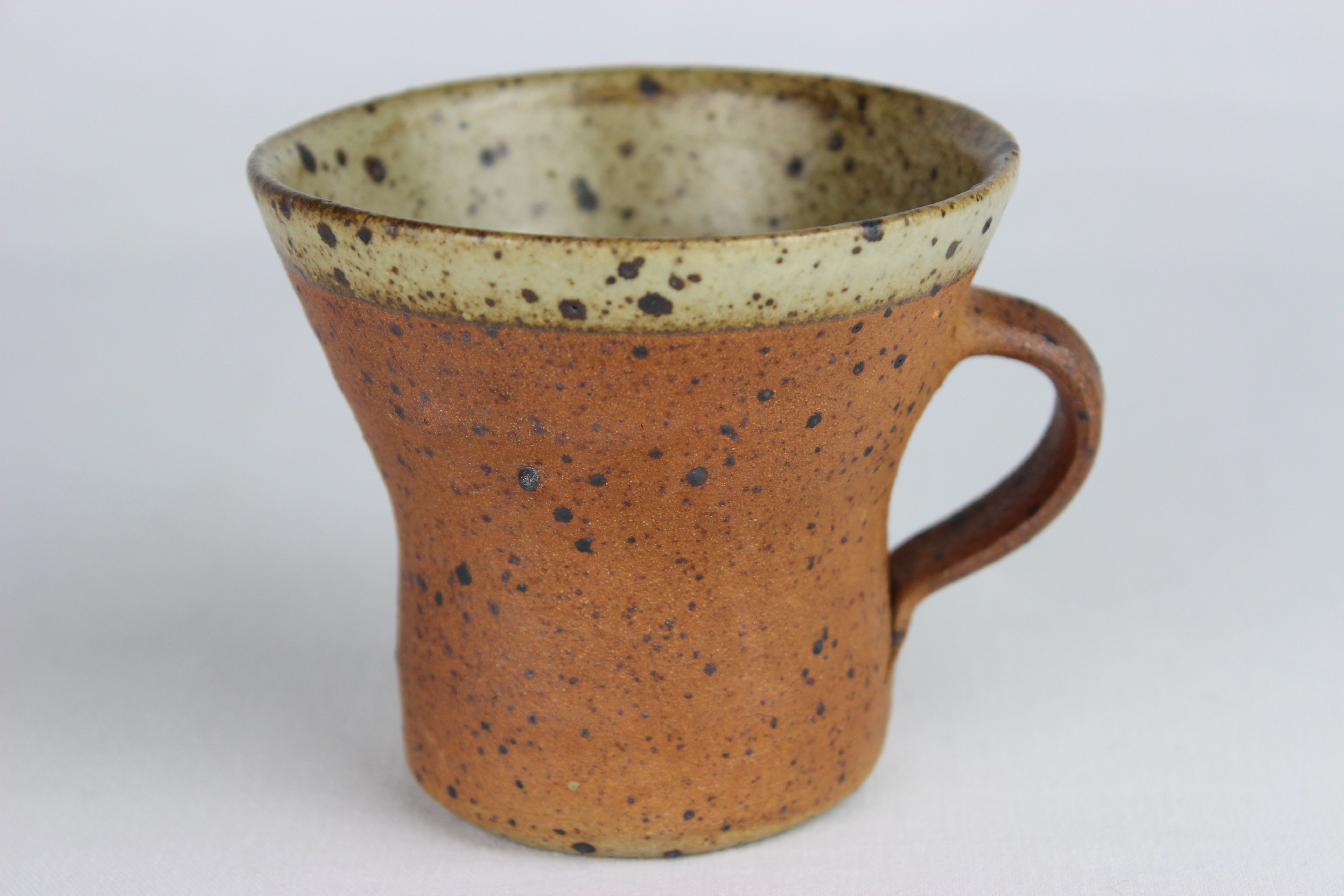 Speckle-glazed cup. From the W.A. Ismay Studio Ceramics Collection at York Art Gallery